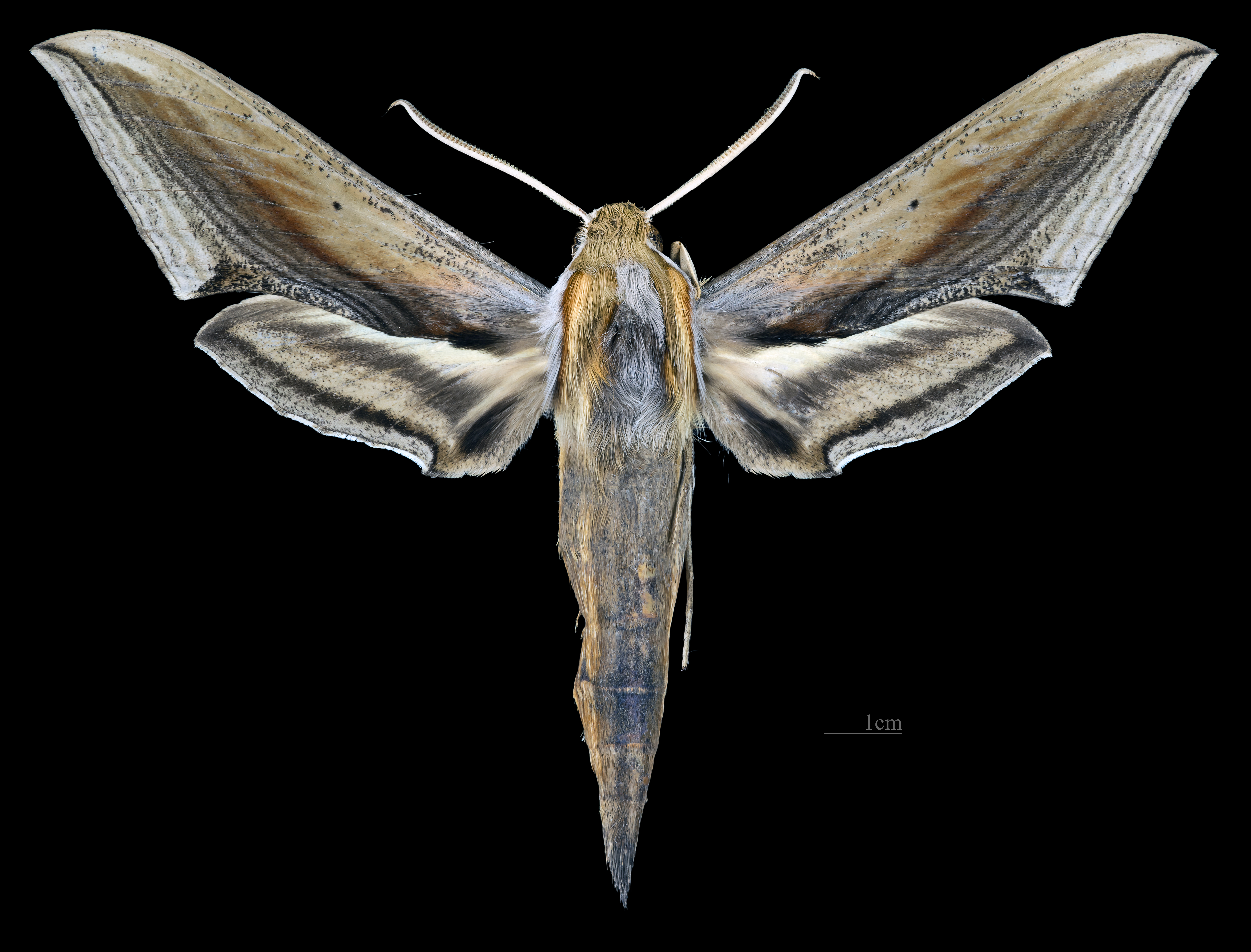 Xylophanes falco - Dorsal side Collection of the Mathematician Laurent Schwartz